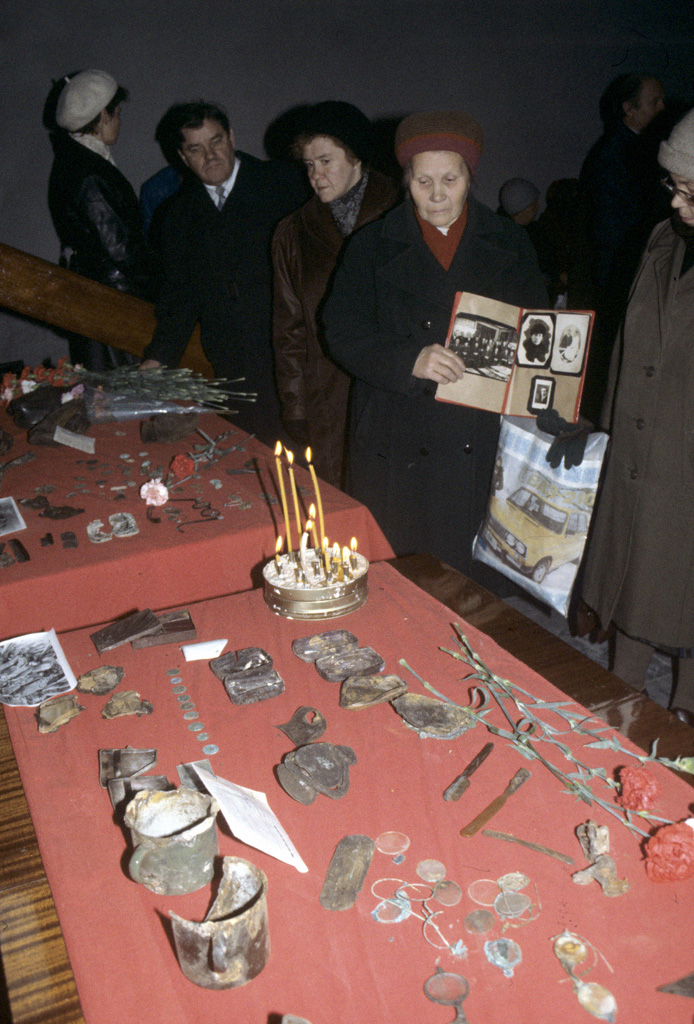 “Personal belongings of victims found on shootings site in Petrozavodsk”. RSFSR. The Karelian ASSR. Burying the remains of victims of Stalinist reprisals. Personal belongings of victims found on the shootings site.